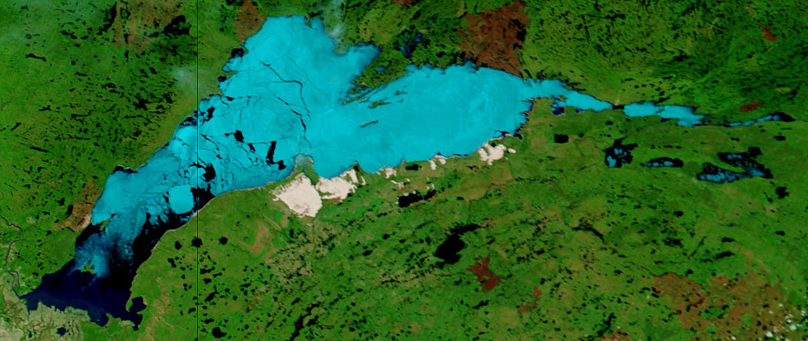 Lake Athabasca, Canada. Lake Athabasca straddles the border between Alberta (west) and Saskatchewan (east) - the black line. In the false-color image, vegetation is green, water is dark blue, and ice (or snow) is light blue.